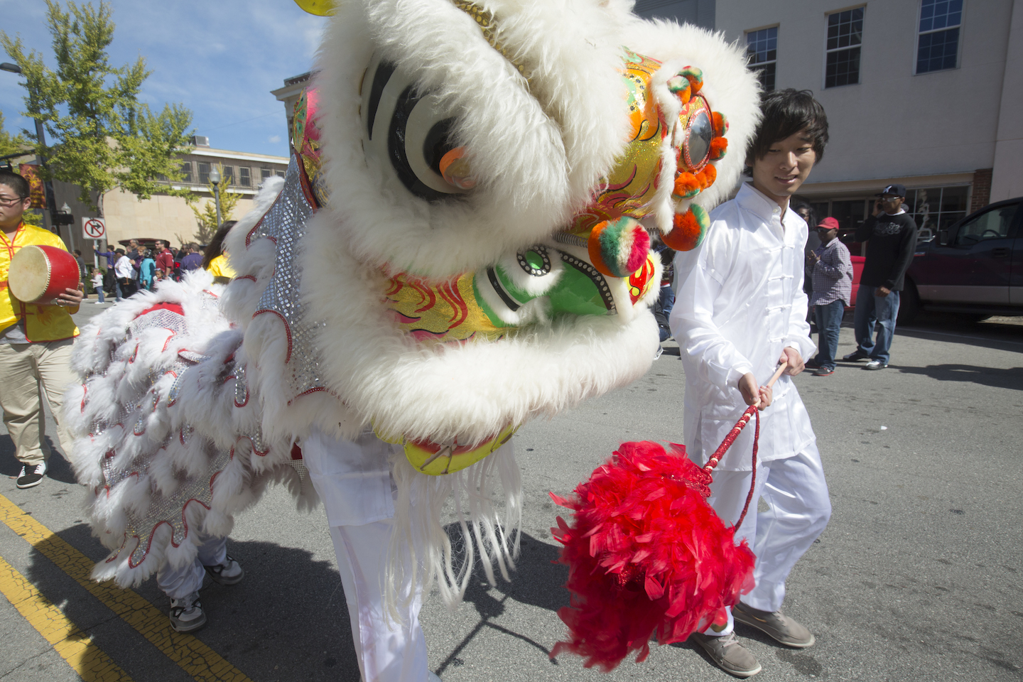 International Affairs Parade